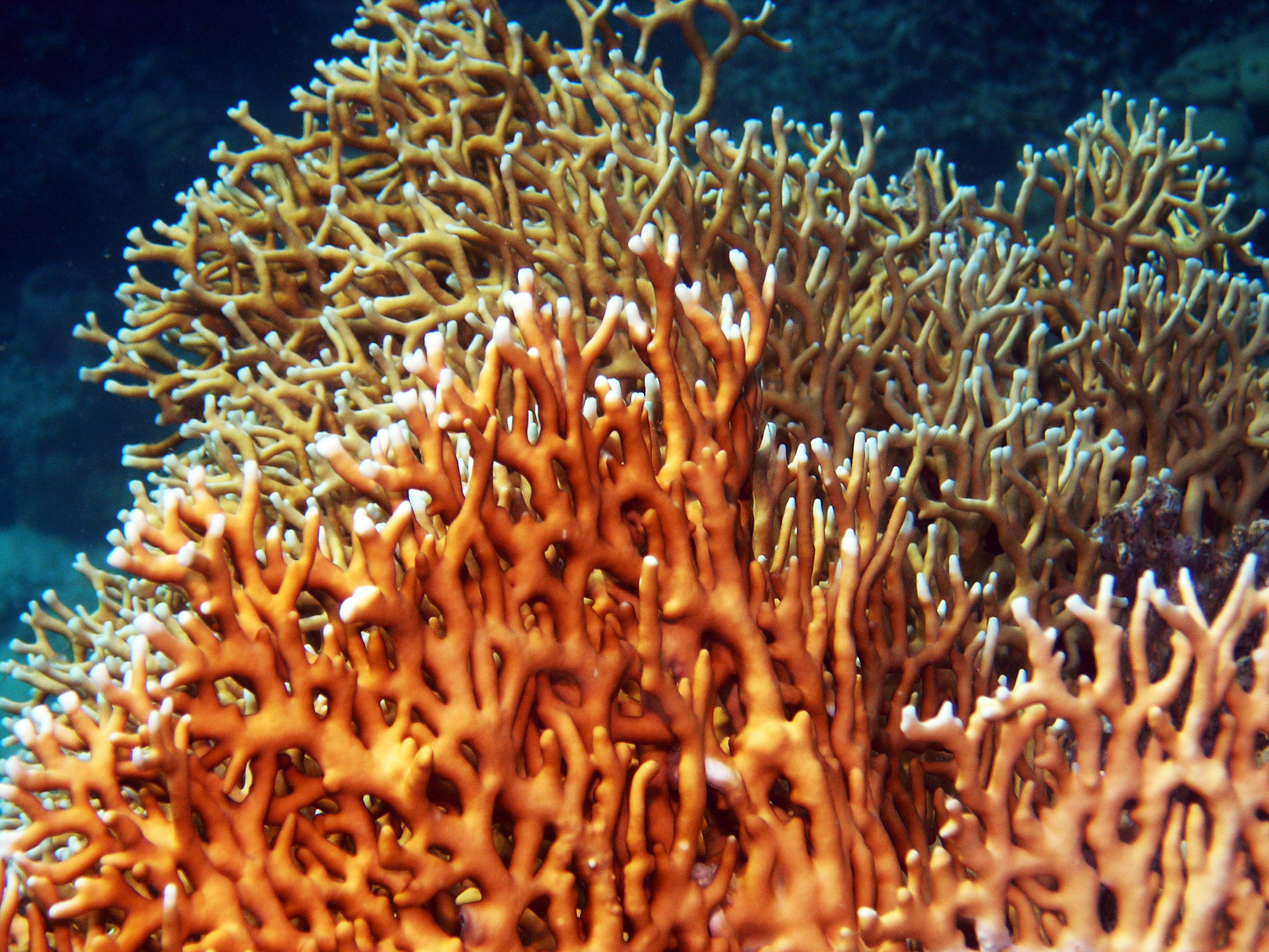 Firecoral will burn if you touch it with bare skin. You are free to use this image providing you include a link to